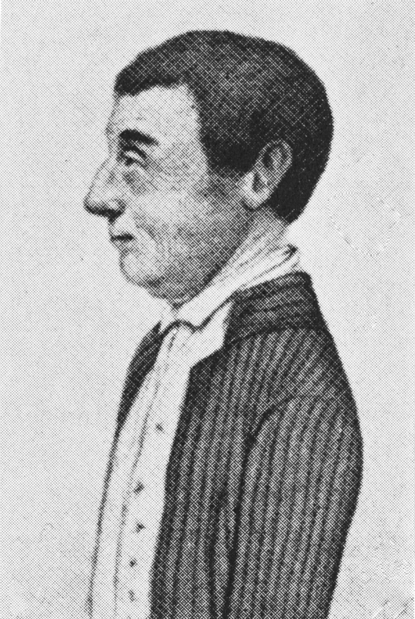 John Abbot (1751-1840 or 1841) by himself.